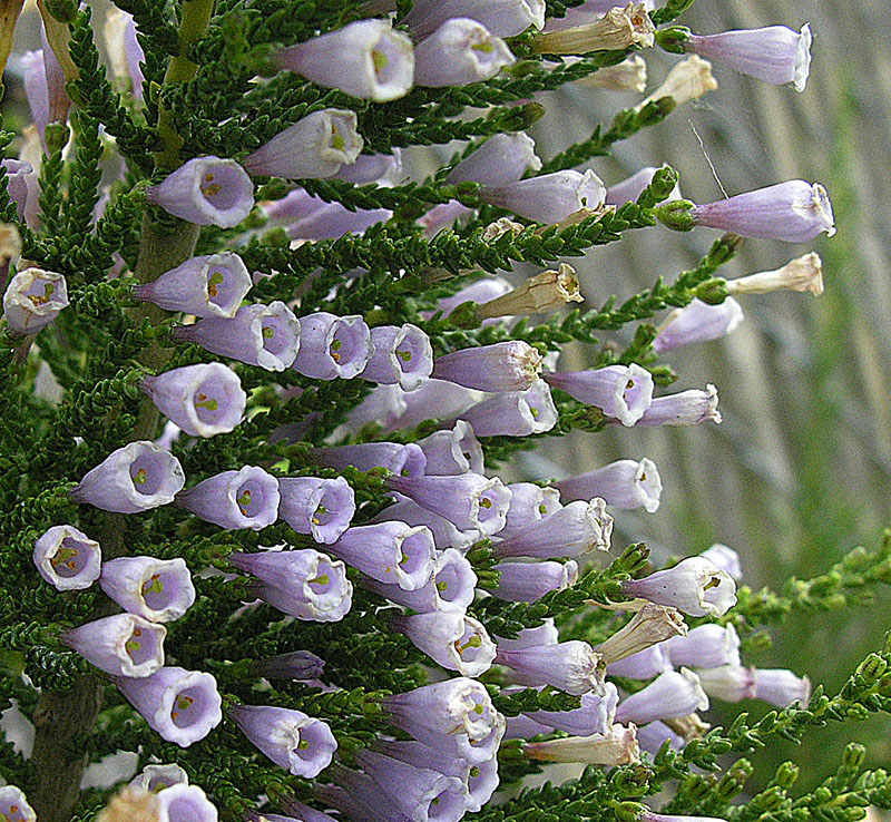 A shrub of the southern Andes, where it is known as Pichi. Univ. B.C. Botanical Gardens. In context at